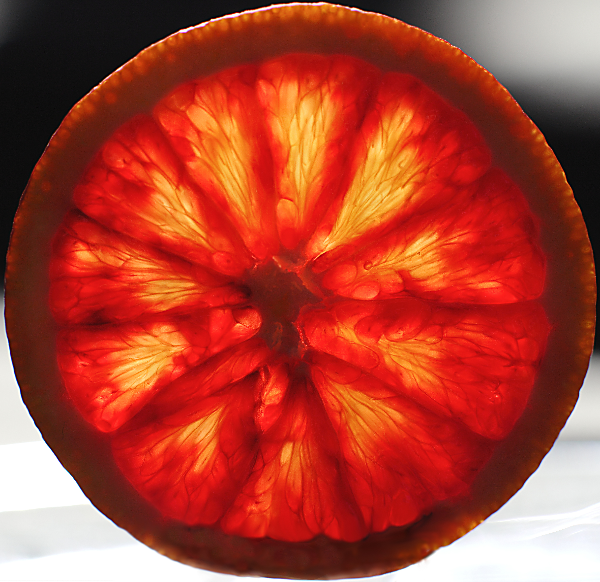 This picture shows a blood orange.